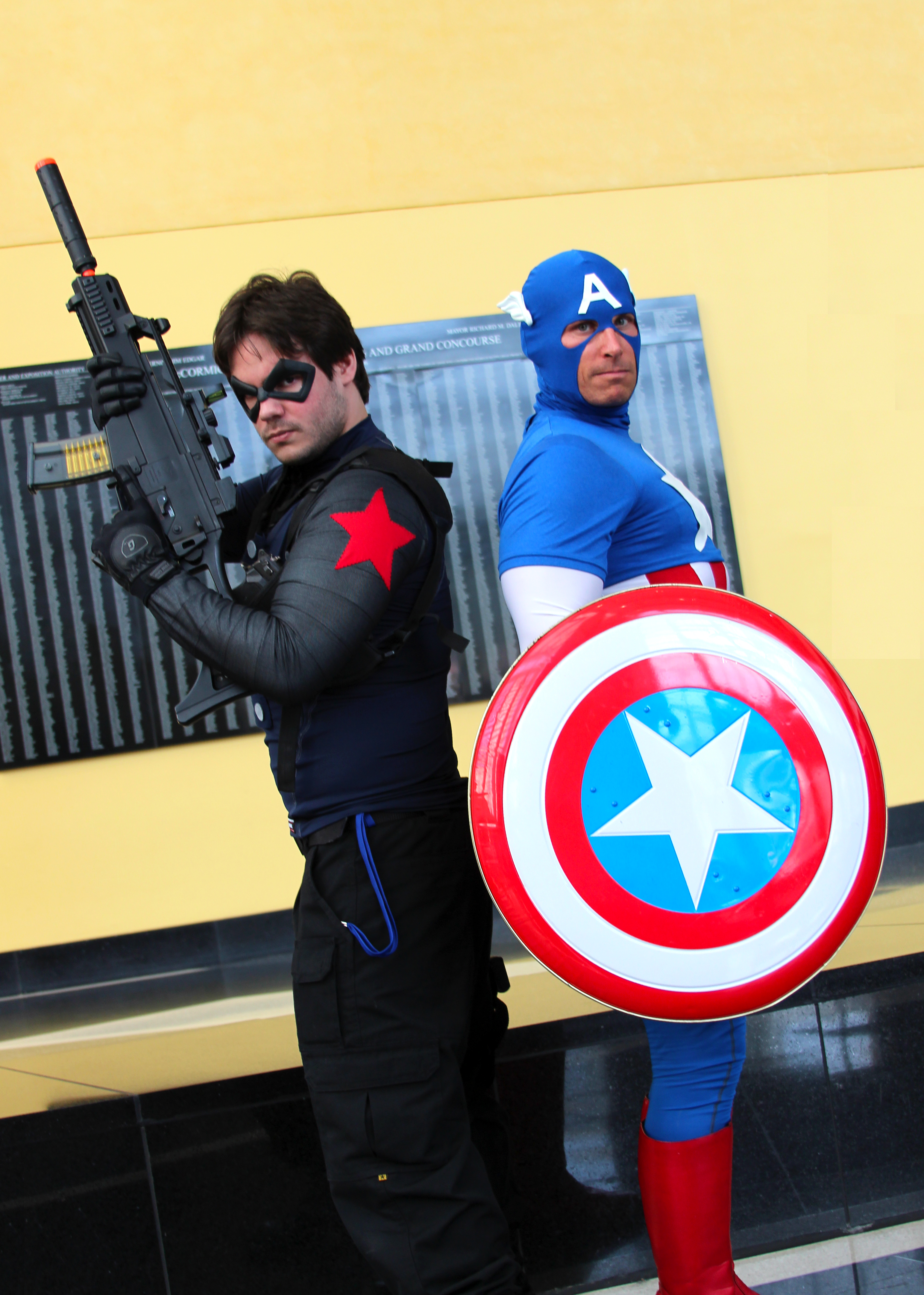 Cosplay at the 2013 Chicago Comic & Entertainment Expo (C2E2).